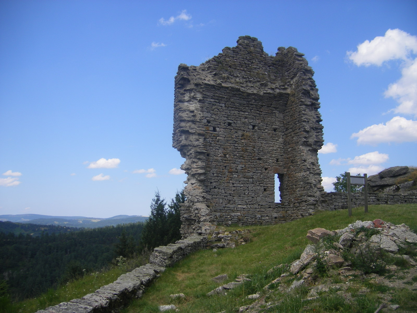 Luc - Castle .